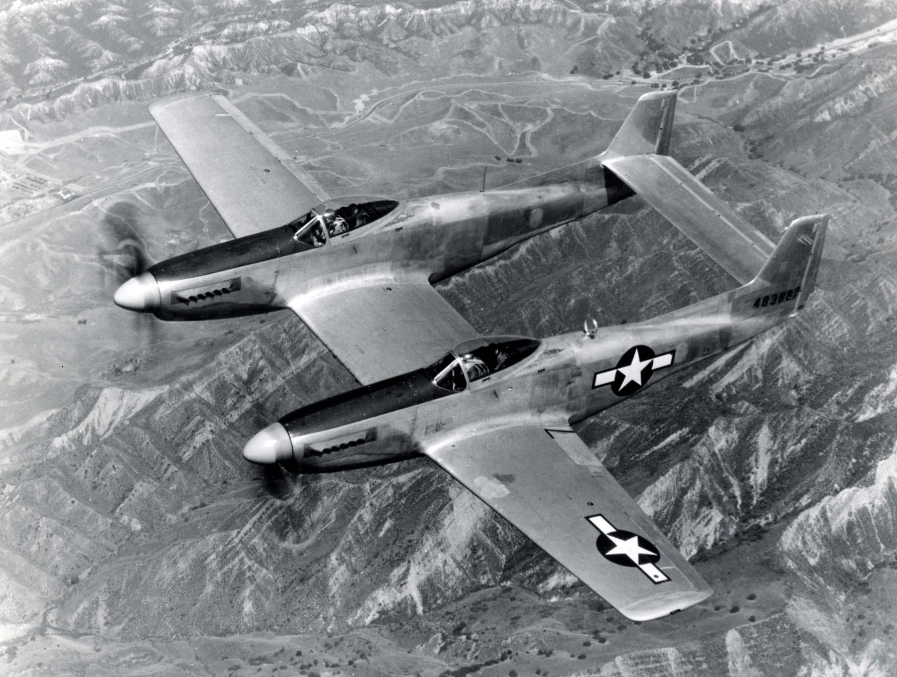 North American XP-82 (44-83887) long range interceptor in flight. The XP-82 was a prototype of what became the F-82 Twin Mustang.